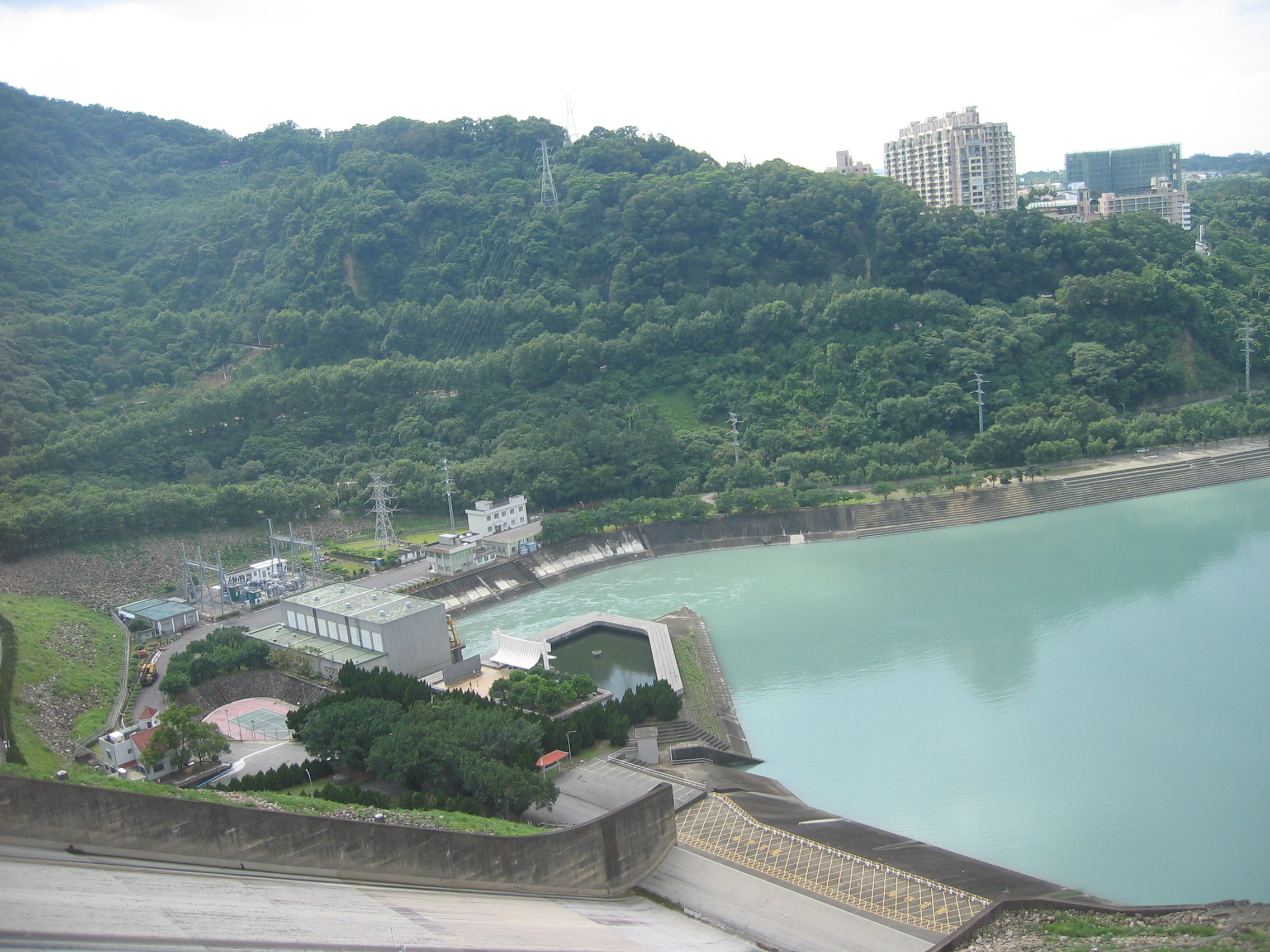 Description: Shimen Reservoir in Taoyuan County, Taiwan, Republic of China. Author: User:Jiang Date: 2005.06.11